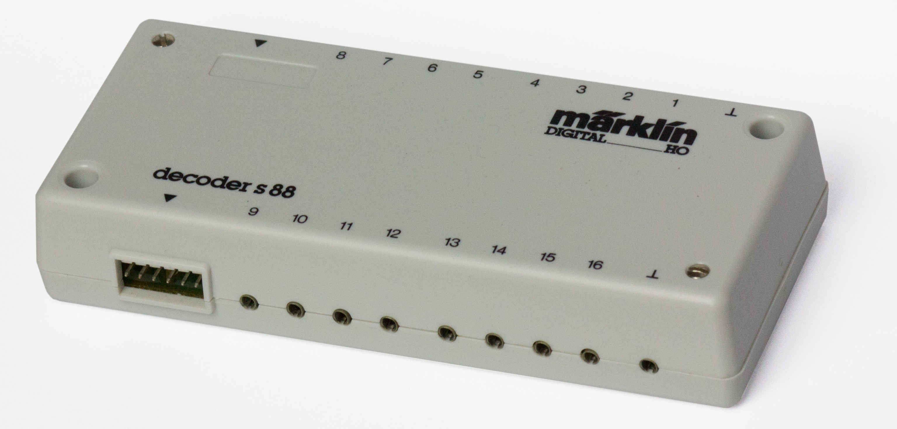 Märklin S88 Decoder.